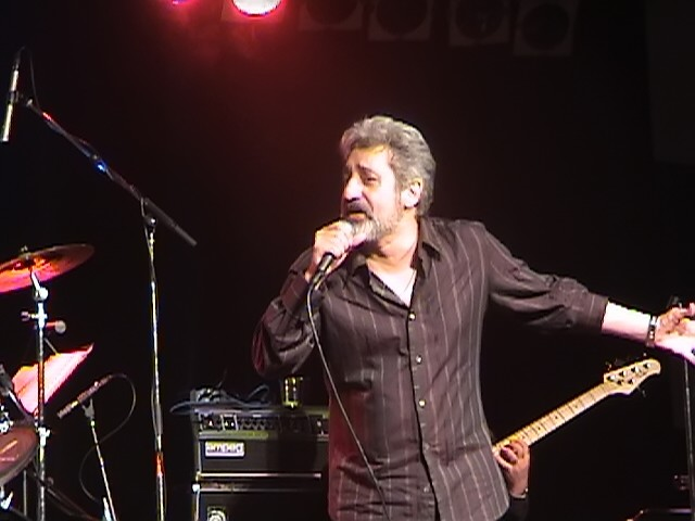 Ebi (Iranian artist), Live in Montreal, Canada.